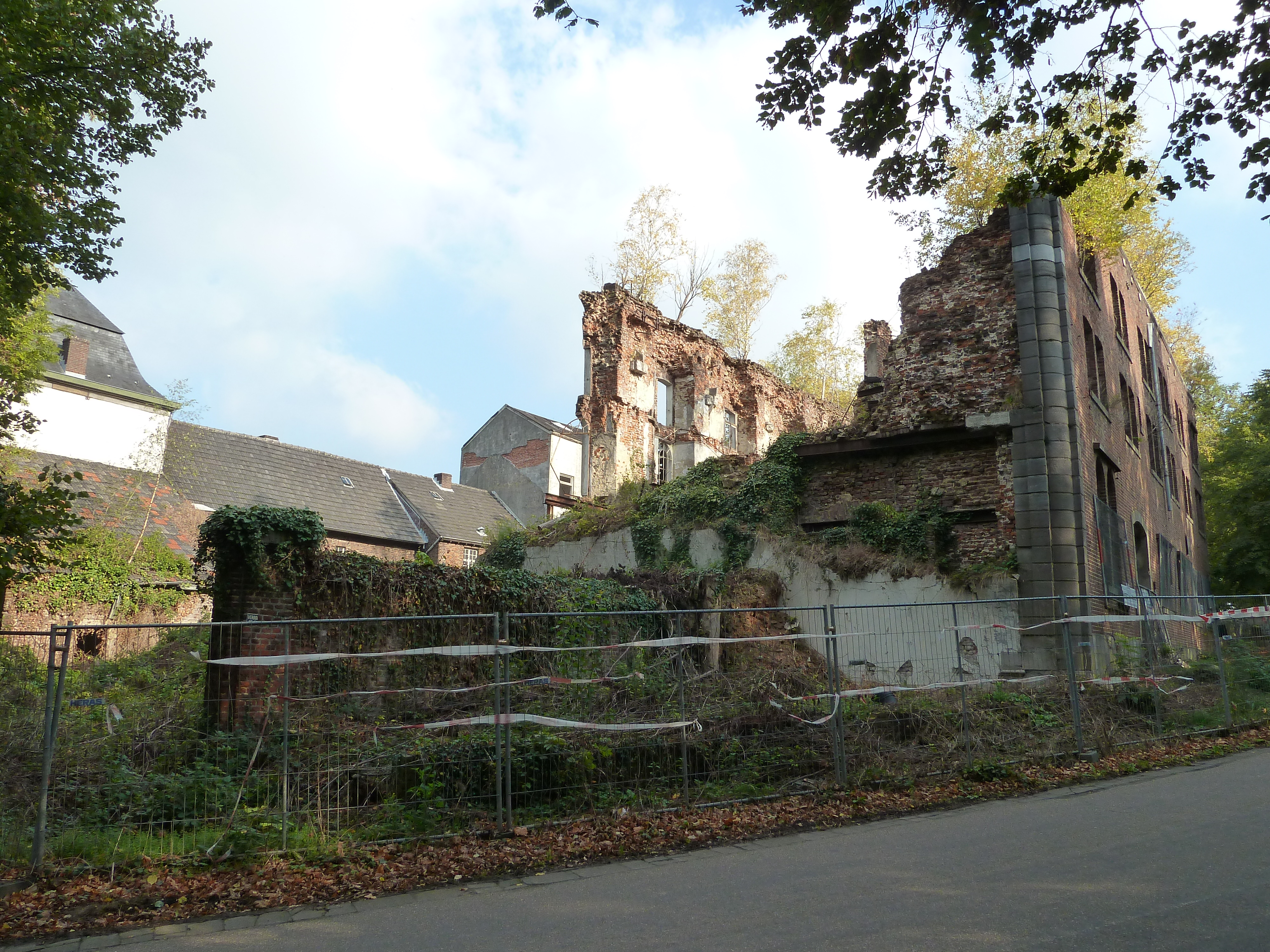 Cloister and farm in Hoogcruts, Limburg, the Netherlands